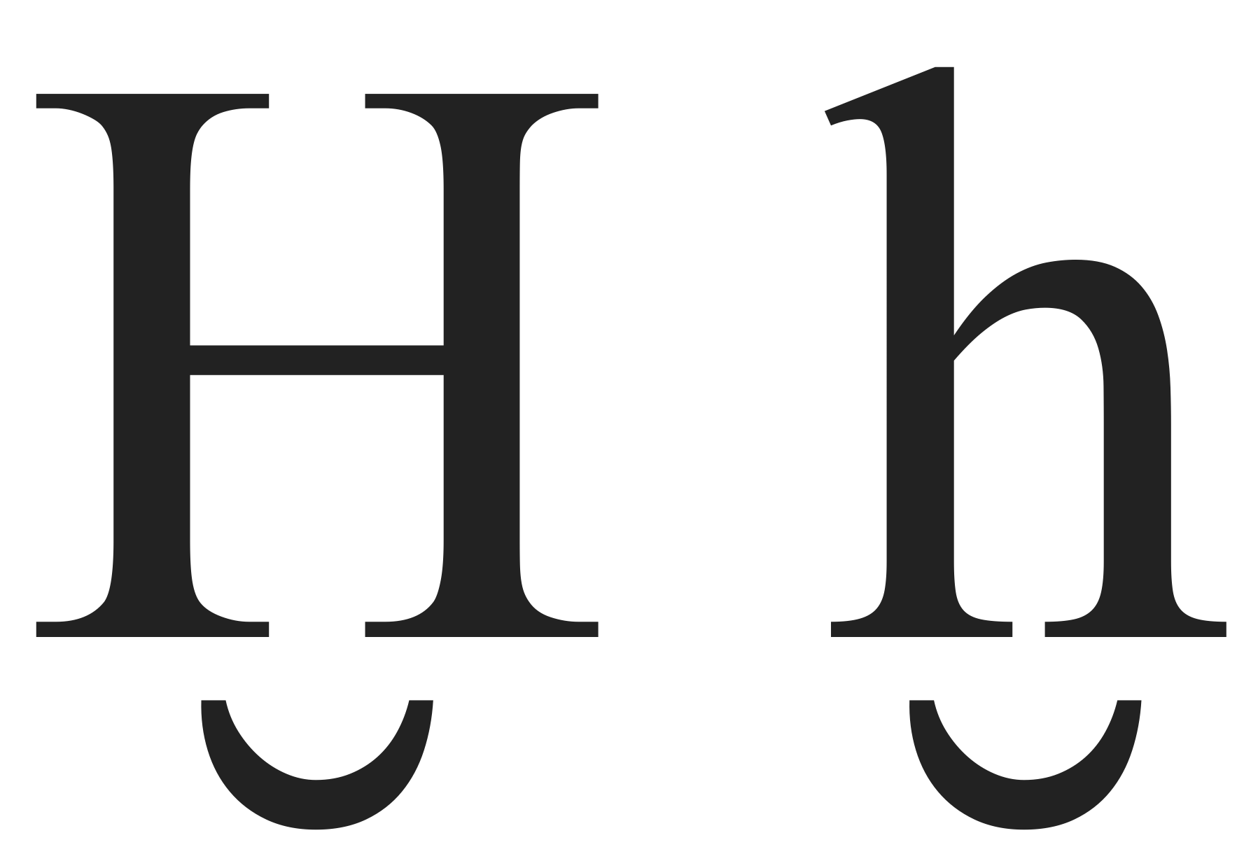 H with breve below